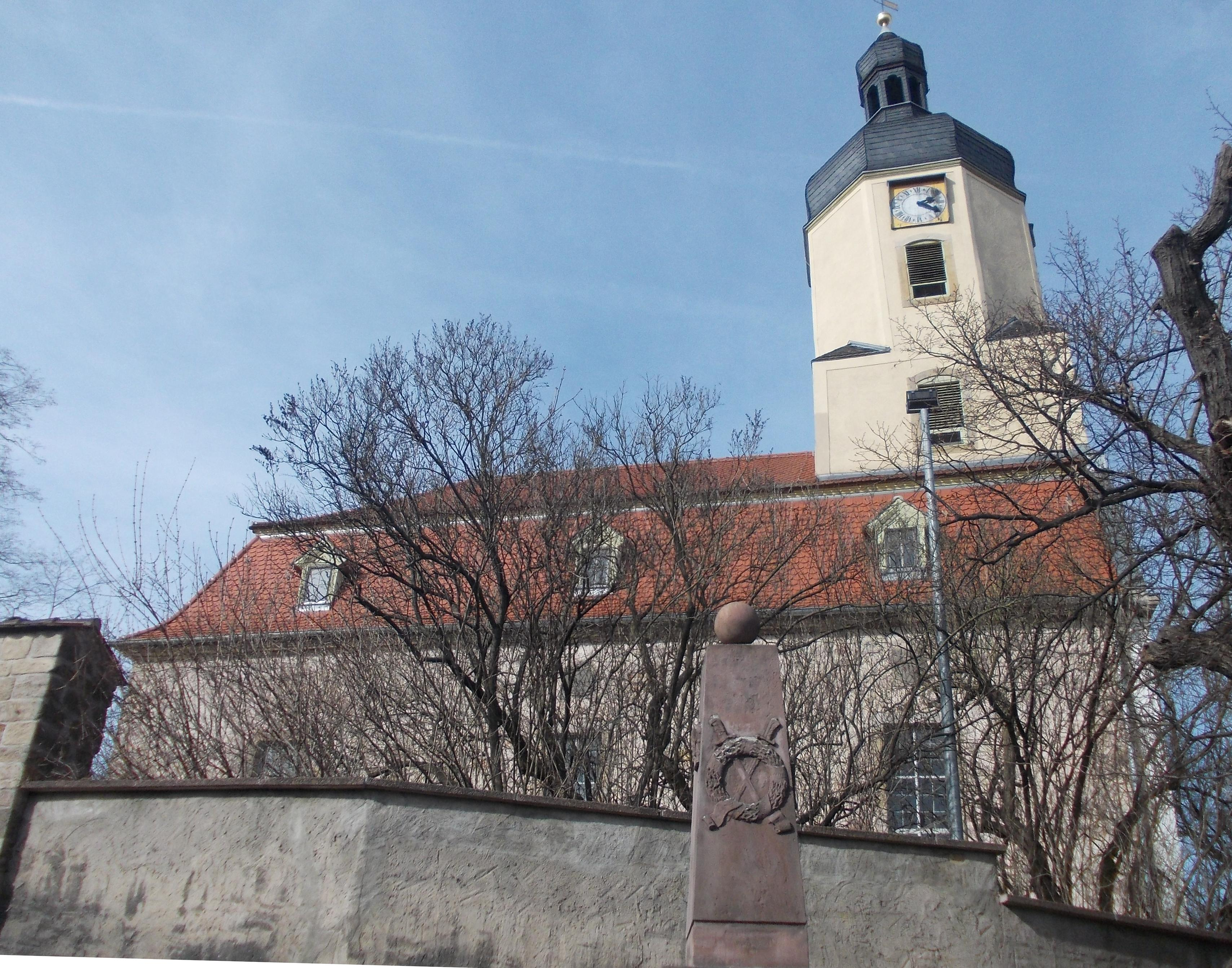 Wethau church (district: Burgenlandkreis, Saxony-Anhalt)